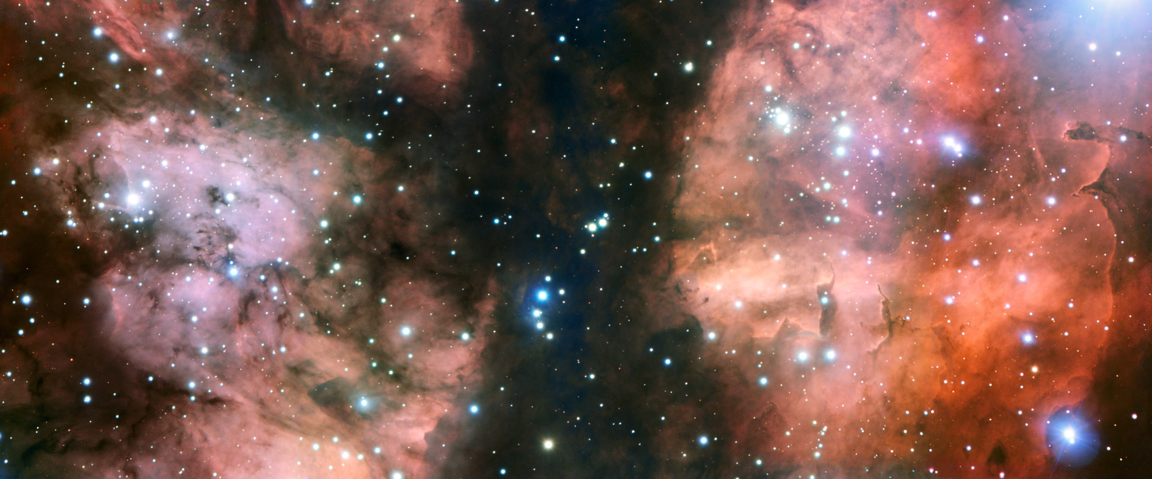 ESO’s Very Large Telescope (VLT) has taken the most detailed image so far of a spectacular part of the stellar nursery called NGC 6357. The view shows many hot young stars, glowing clouds of gas and weird dust formations sculpted by ultraviolet radiation and stellar winds.